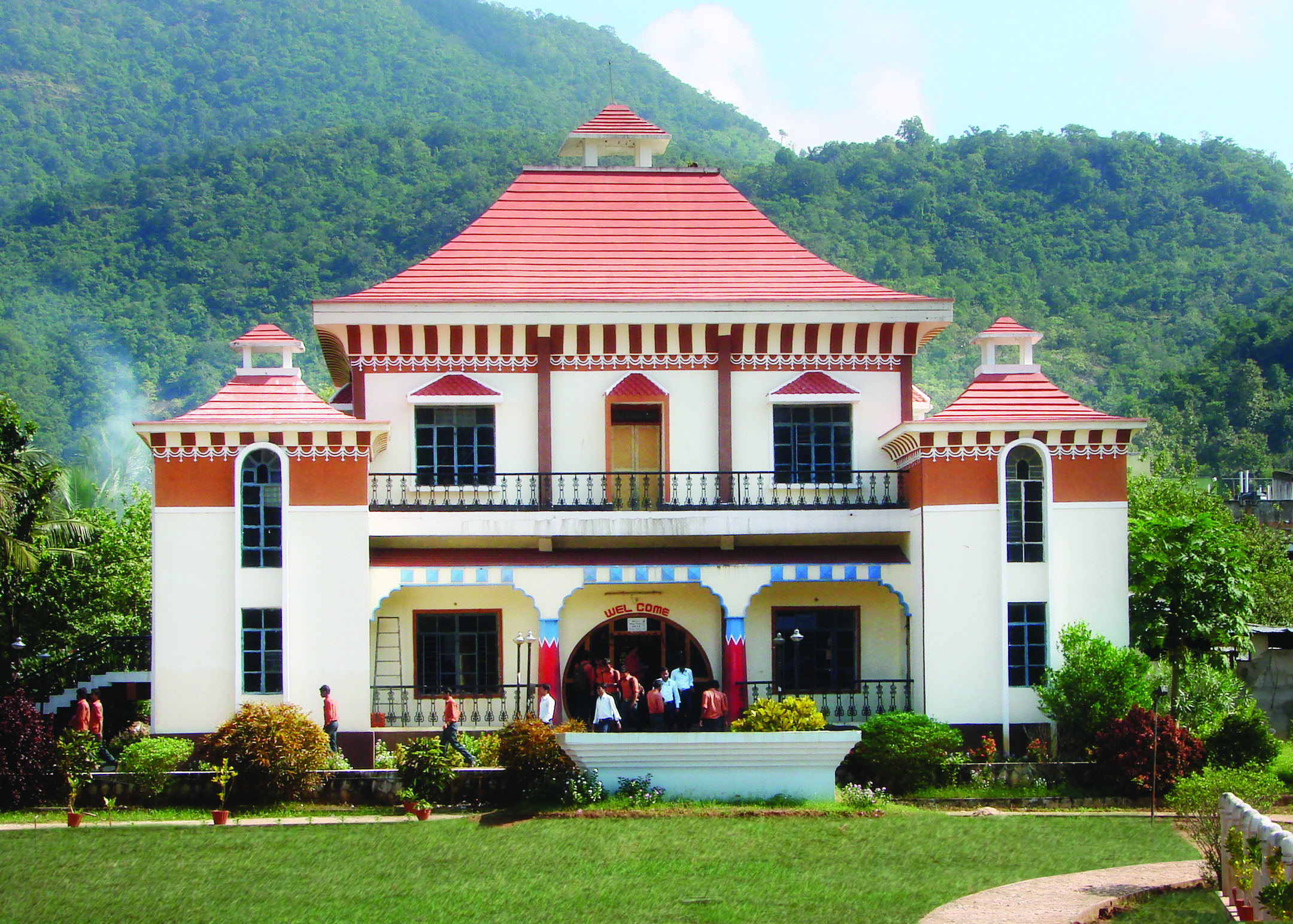 Students Delight ~ The Student Centre